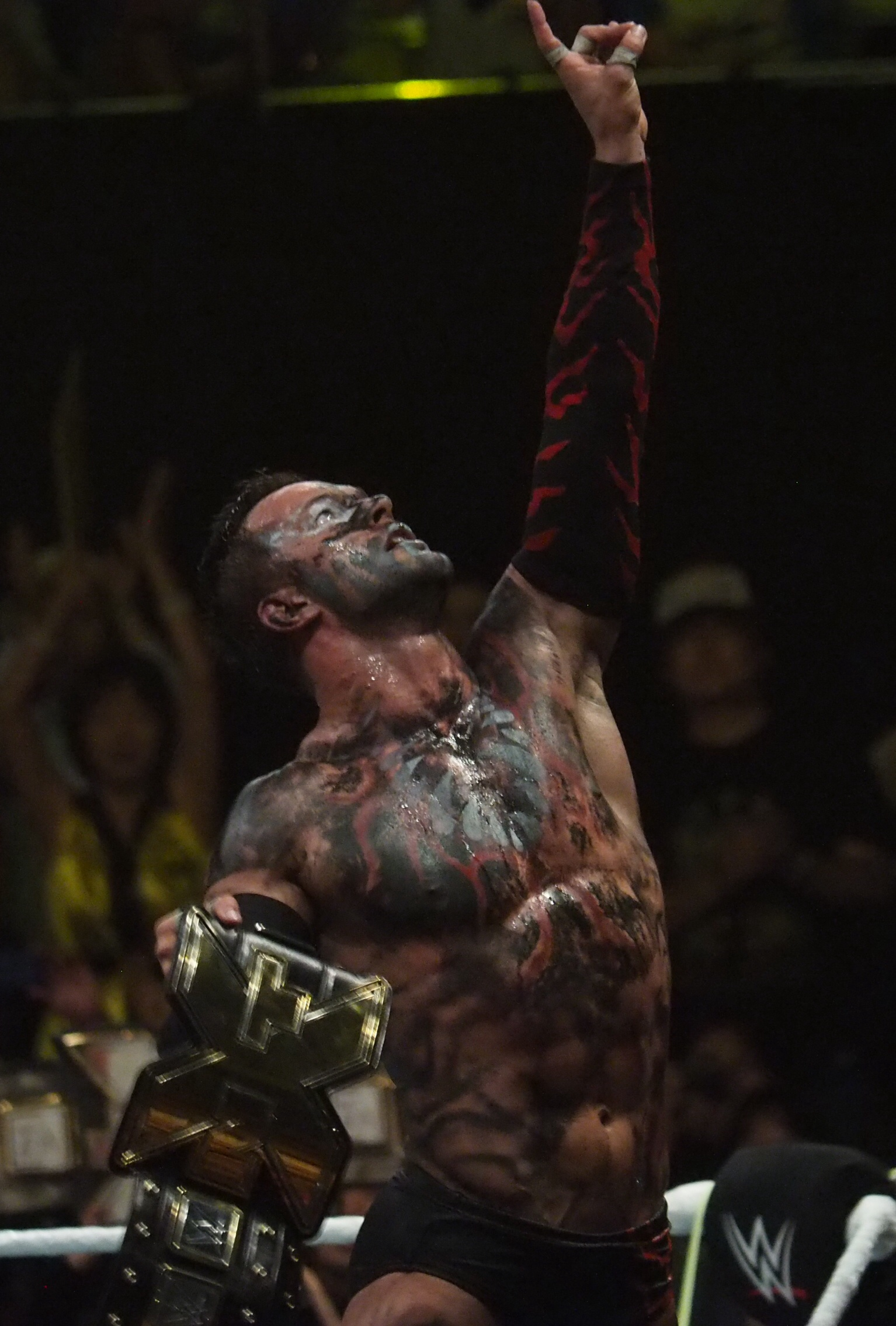 Finn Bálor shortly after winning the NXT Championship from Kevin Owens at The Beast in the East.